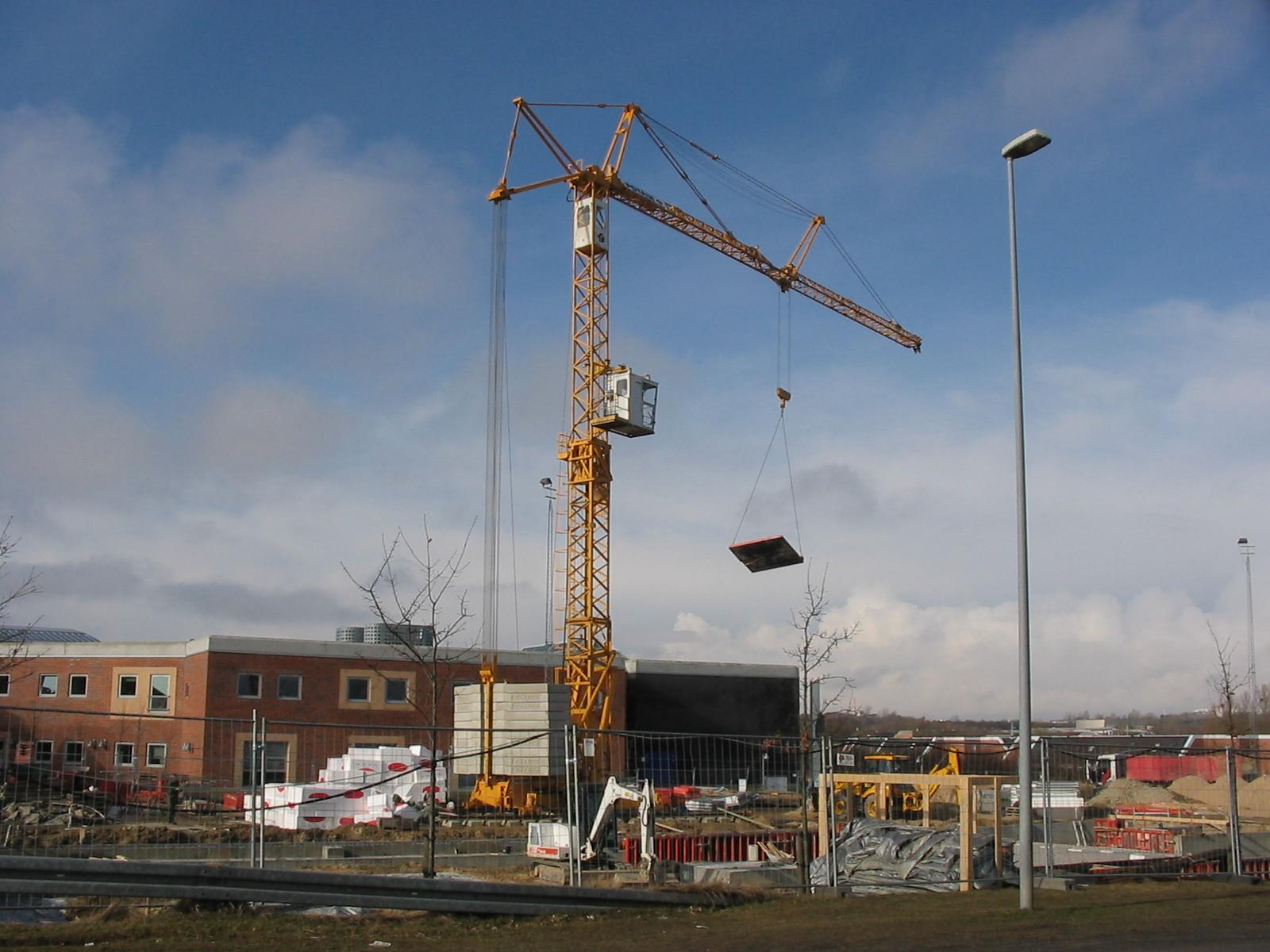 Tower crane, Aalborg, Denmark